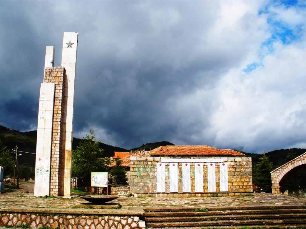 Lapidar in the commune of Voskopoja, Southeast Albania